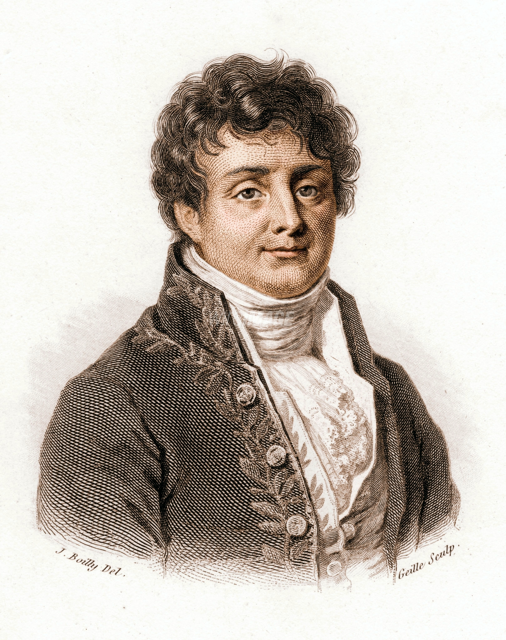 Engraved portrait of French mathematician Jean Baptiste Joseph Fourier (1768 - 1830), early 19th century.